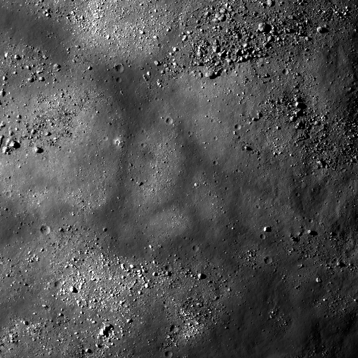 A portion of central peak at Vitello crater. Image number M135433752L. Image resolution is 0.5 m/pixel, image width 600 m. Incidence angle 61°, sunlight direction is from upperleft [NASA/GSFC/Arizona State University].